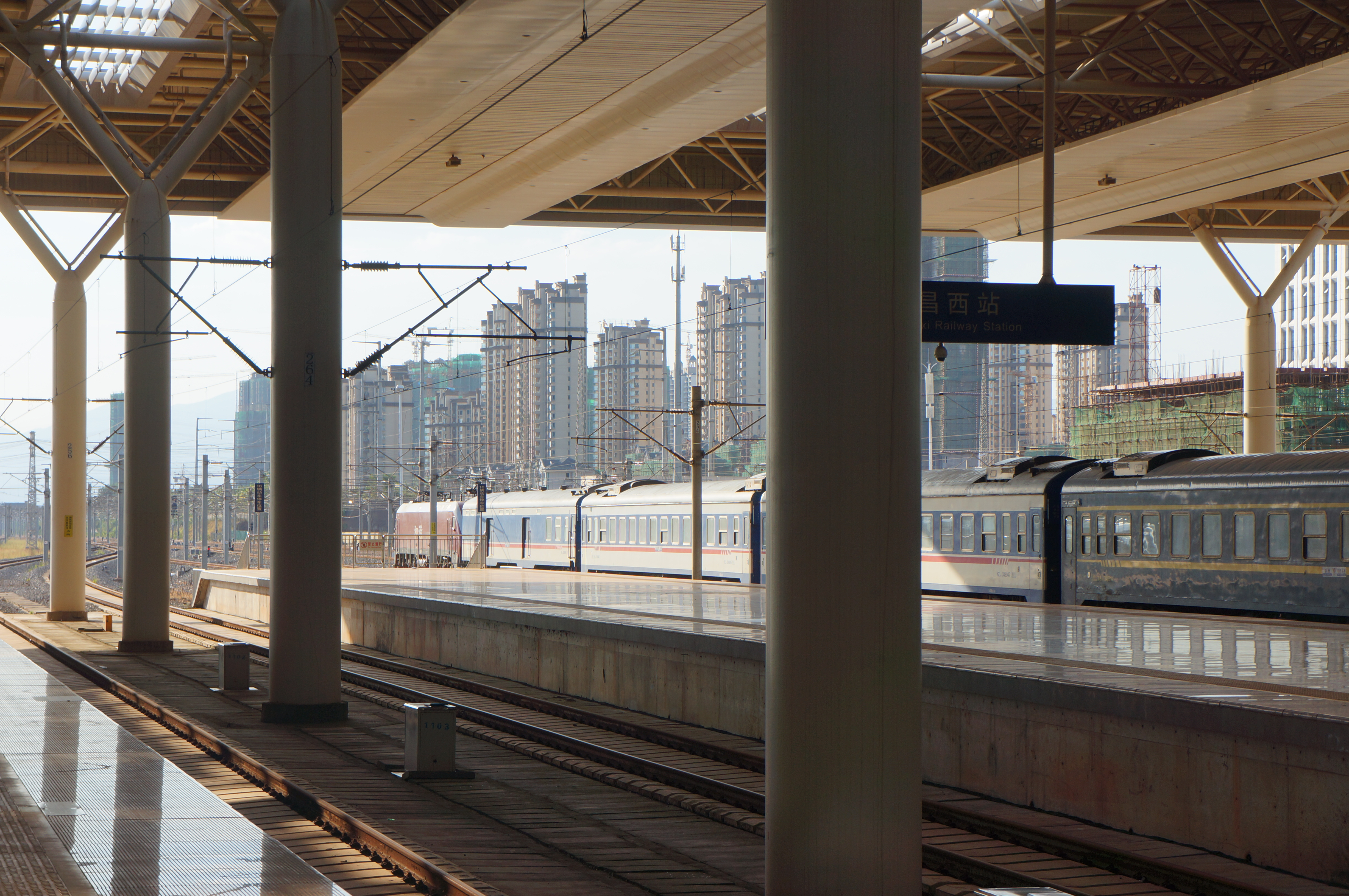 201608 T306 at Nanchangxi Station